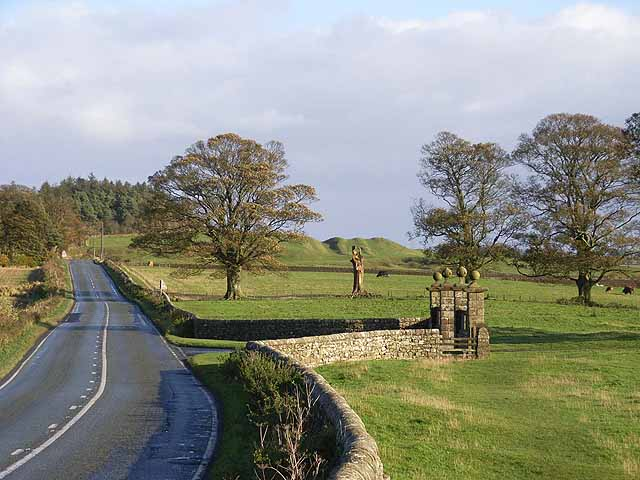 Halton Castle Gateway The gateway to Halton Castle stands on the site of a former fort on Hadrian's Wall. Hadrians Wall National Trail which runs 135 km from Bowness-on-Solway to Wallsend passes to the right of the gateway. To the left, the post-Roman Military Road (B6318) runs along the line of Hadrian's Wall Hadrians_Wall itself. On the skyline can be seen the remarkable ridges of the Vallum at Downhill NZ0068.